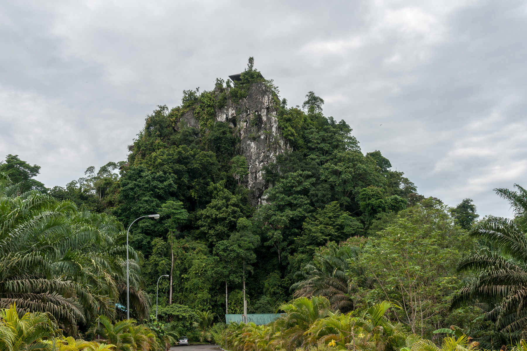 Kg. Batu Putih, Sabah: Agop Batu Tulug (Batu Tulug Caves) in District Kinabatangan